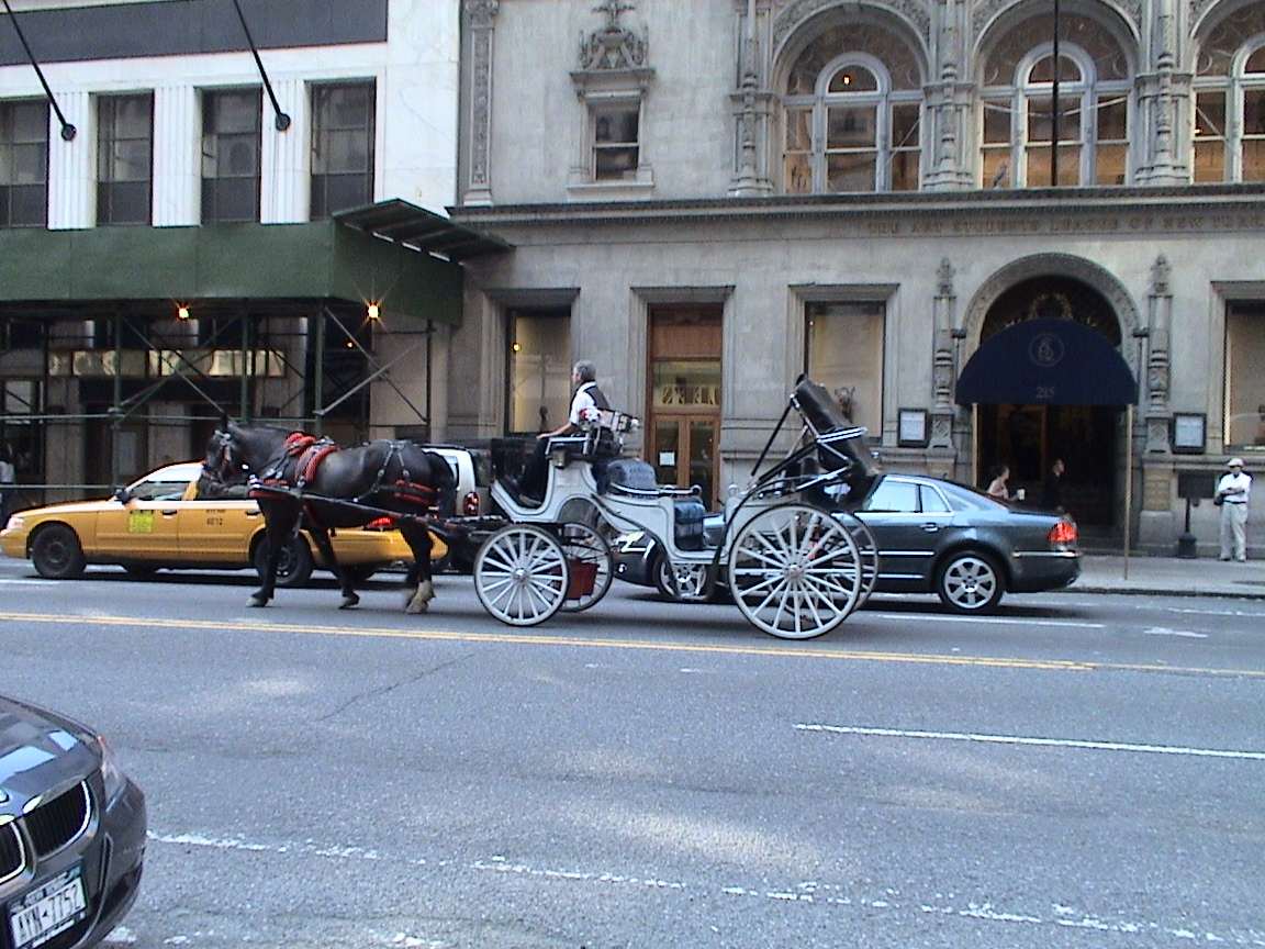 files from my last capturing adventure from Mississippi and New York, Kew Gardens and else. Carriage in front of the Art Students League of New York.